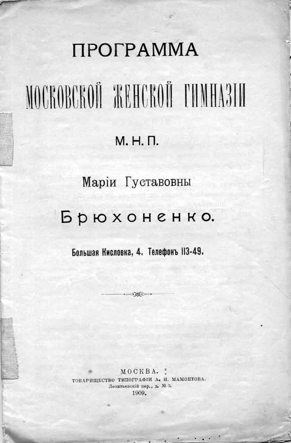 Cover of the curriculum of Brukhonenko grammar school, Moscow, 1909. It is sold on Gelos auction house in 2007.